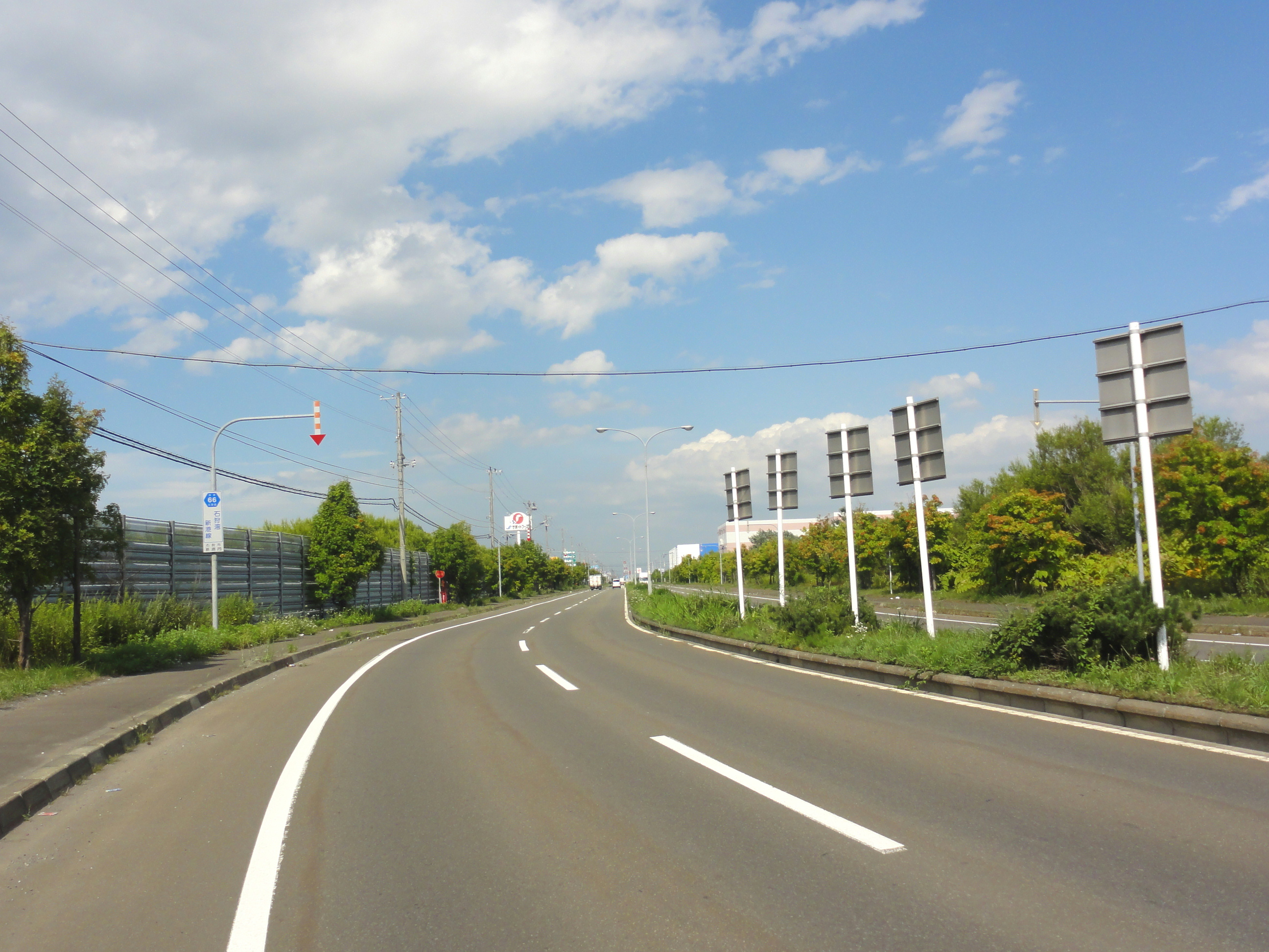 Hokkaido Pref Route 1066 (Ishikari, Hokkaidō)